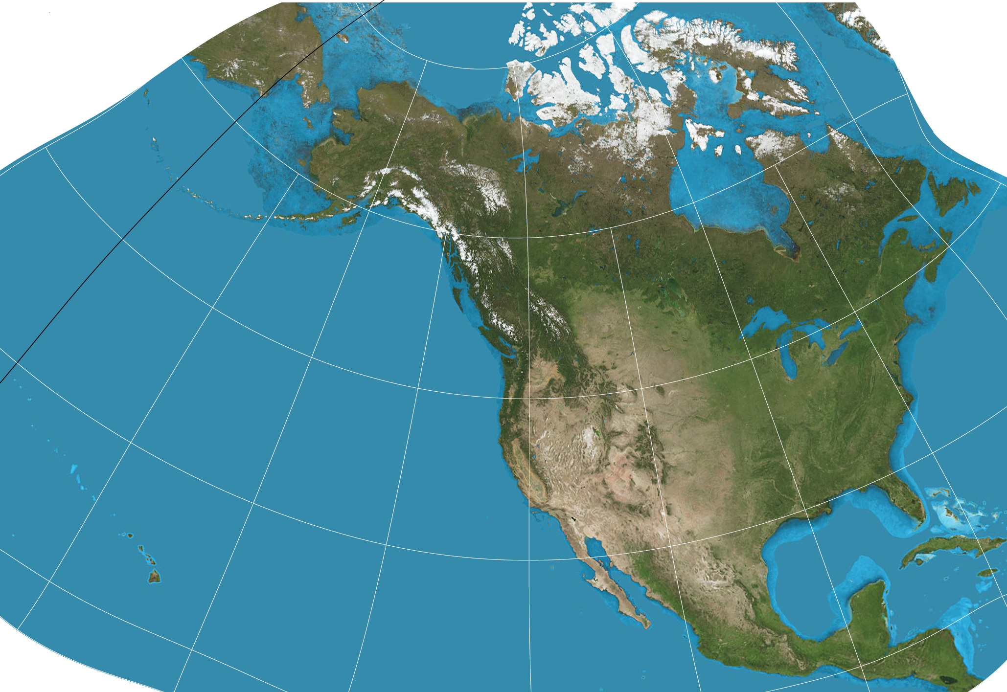 The United States of America on GS50 projection. 15° graticule. Imagery courtesy NASA’s Earth Observatory, with modifications by Mapthematics LLC.